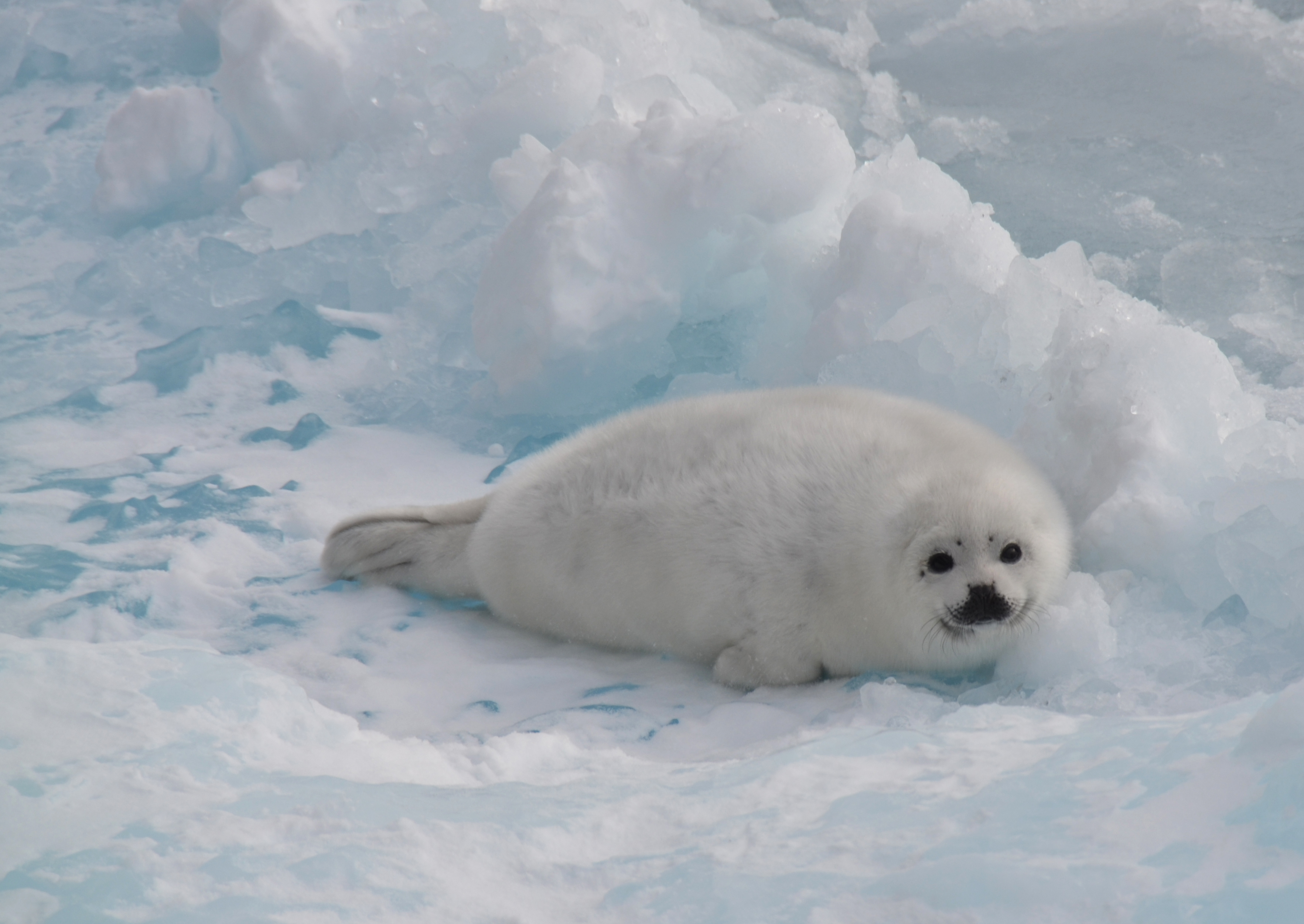 A weaned harp seal pup on an ice floe in the west ice